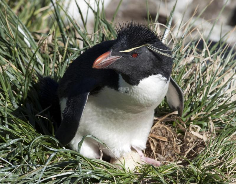 091126_west_point_falklands_0213